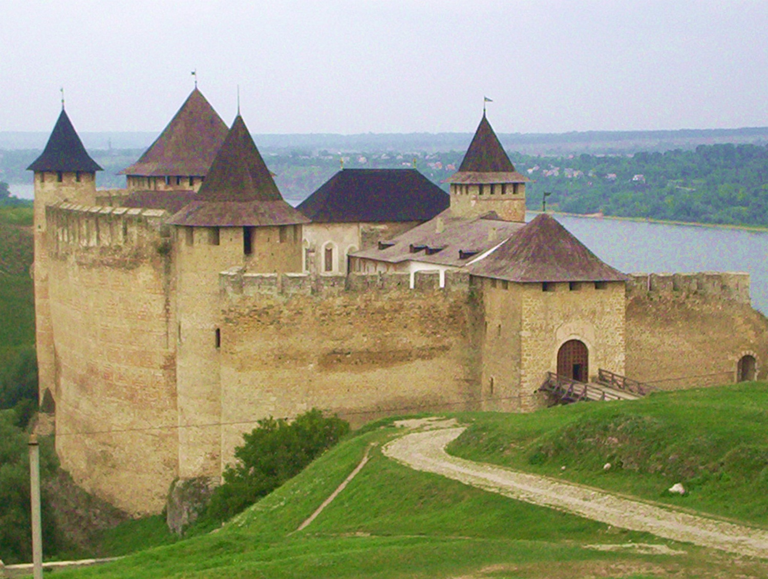 Fortress in Chocim, Ukraine seen at the front.